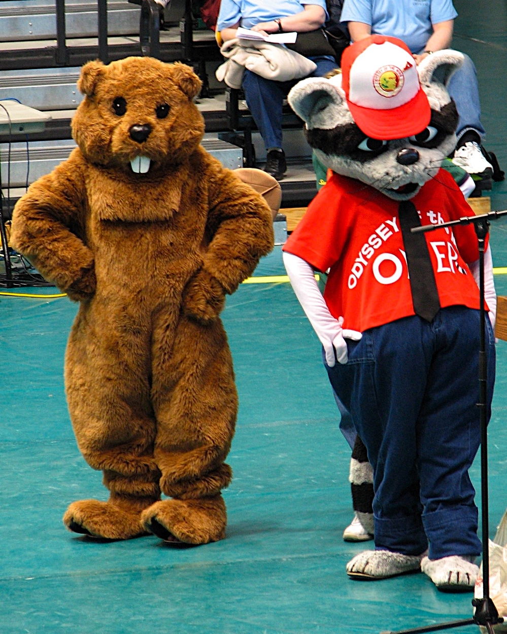 SNYPS, the mascot of the New York State Odyssey of the Mind Association (NYSOMA), and OMER, the mascot of Odyssey of the Mind.